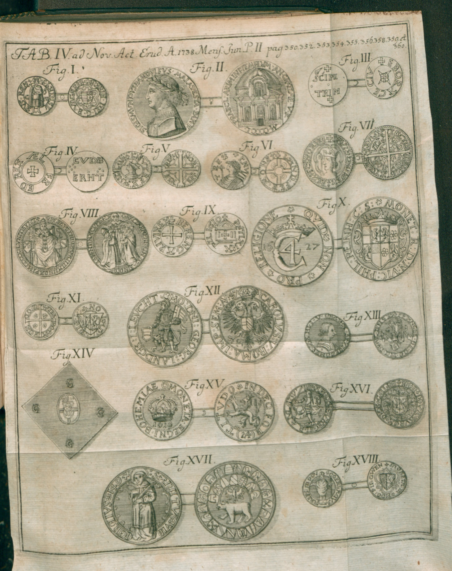 Illustration of following coins: Fig. I Mary of Hungary Fig. II Sigismondo Pandolfo Malatesta (Medal by Matteo de' Pasti see: Category:Sigismondo Malatesta medal with Tempio Malatestiano by Matteo de' Pasti Fig. III Mint of York (?) Fig. IV Alfred the Great (AR Penny) Fig. V Cnut (AR Penny) Fig. VI Cnut (AR Penny) Fig. VII David II of Scotland Fig. VII Medal for Eugenius IV (s. File:Stato della chiesa, moneta commemorativa a di eugenio IV, 1439 ca..JPG Fig. IX Berengar I of Italy Fig. X Christian IV of Denmark Fig. XI Fig. XII Georg III (or IV ?) Landgraaf van Leuchtenberg / Charles V Fig. XIII Fig. XIV Siege coin (Klippe) ?? Fig. XV Bohemia during Thirty Years' War Fig. XV Fig. XVII Bern (Stadt) Fig. XVIII Gerlach I, Count of Nassau (s. Category:Nassau (Lahn)